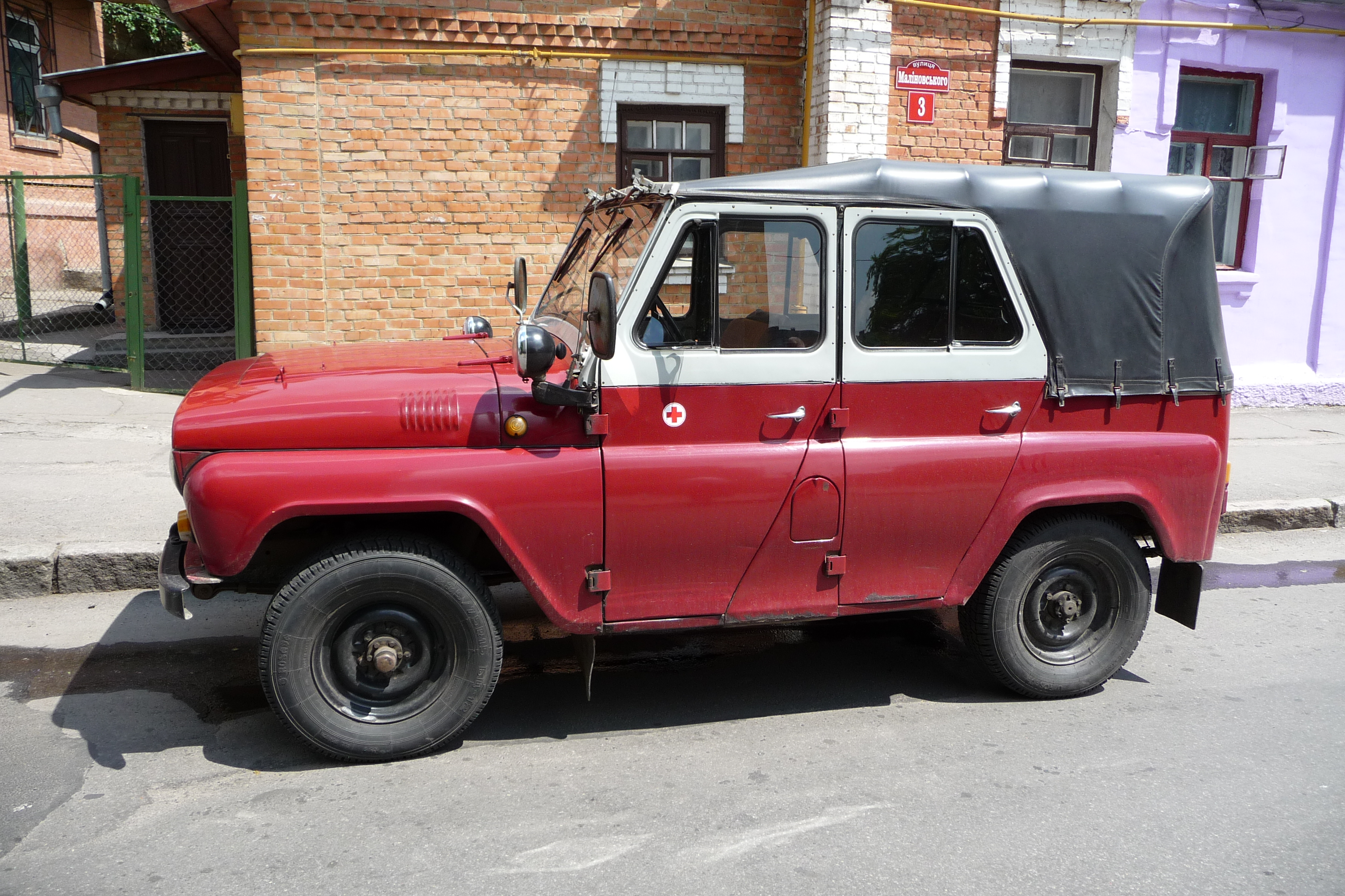 The UAZ-469 is an Soviet off-road vehicle 4x4. It was used by the Red Army and other Warsaw Pact forces. It is medical modification, used in Ukraine, Vinnitsa. 2009.